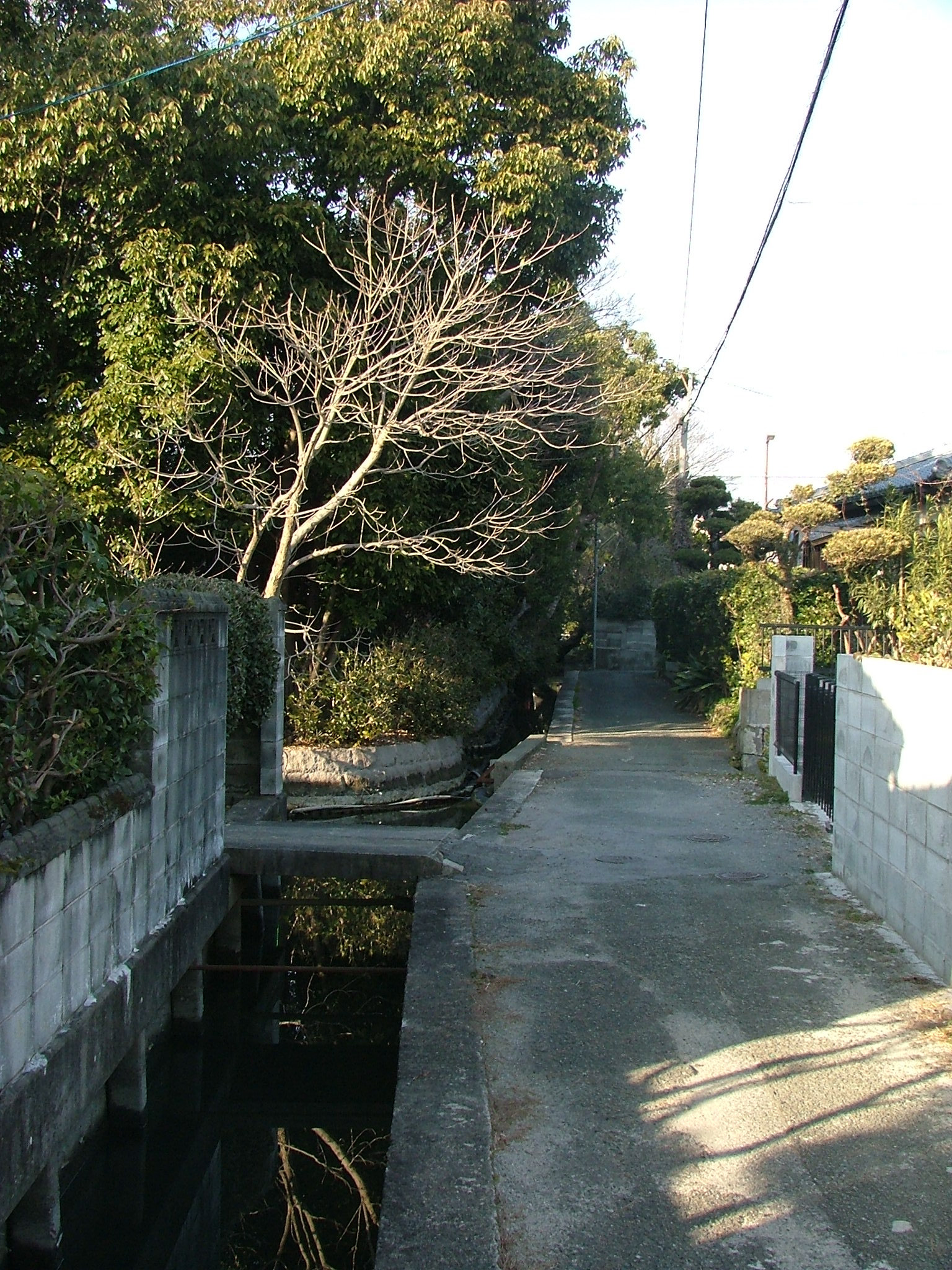 the Edo Alley in Yanagawa City,Fukuoka Prefecture,Japan